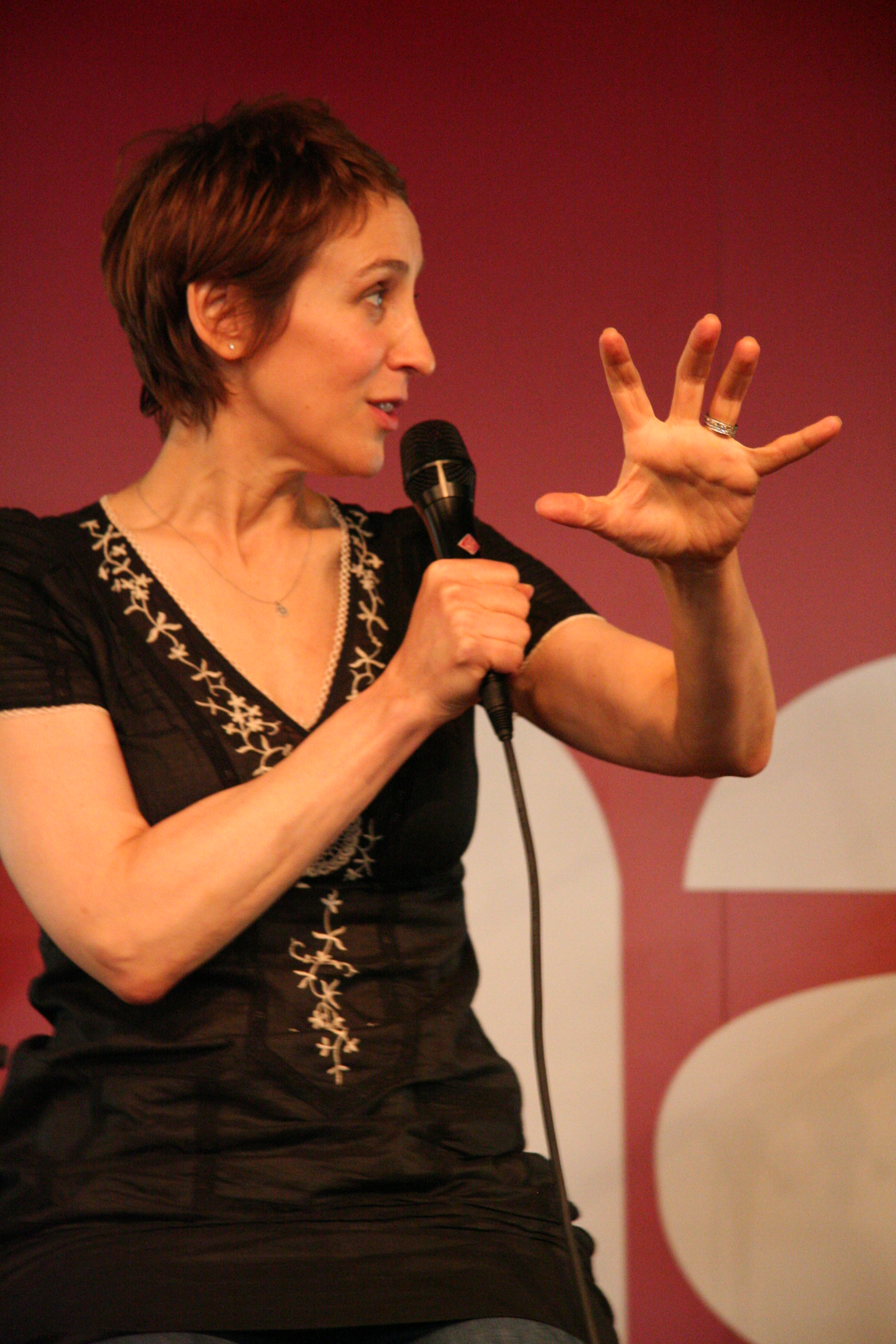 Show-case with Stacey Kent at Fnac Montparnasse (Paris, France).